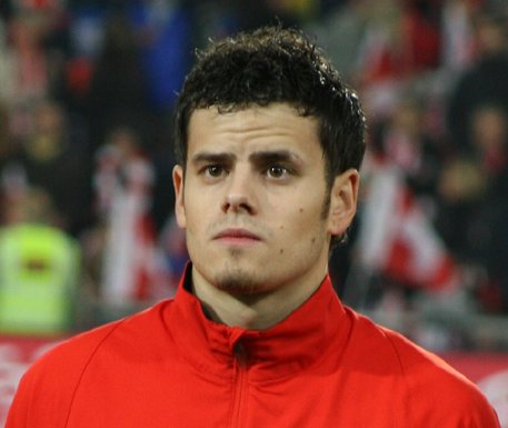 Tranquillo Barnetta (born May 22, 1985 in St. Gallen) is a Swiss football player who currently plays as a midfielder for Bayer Leverkusen